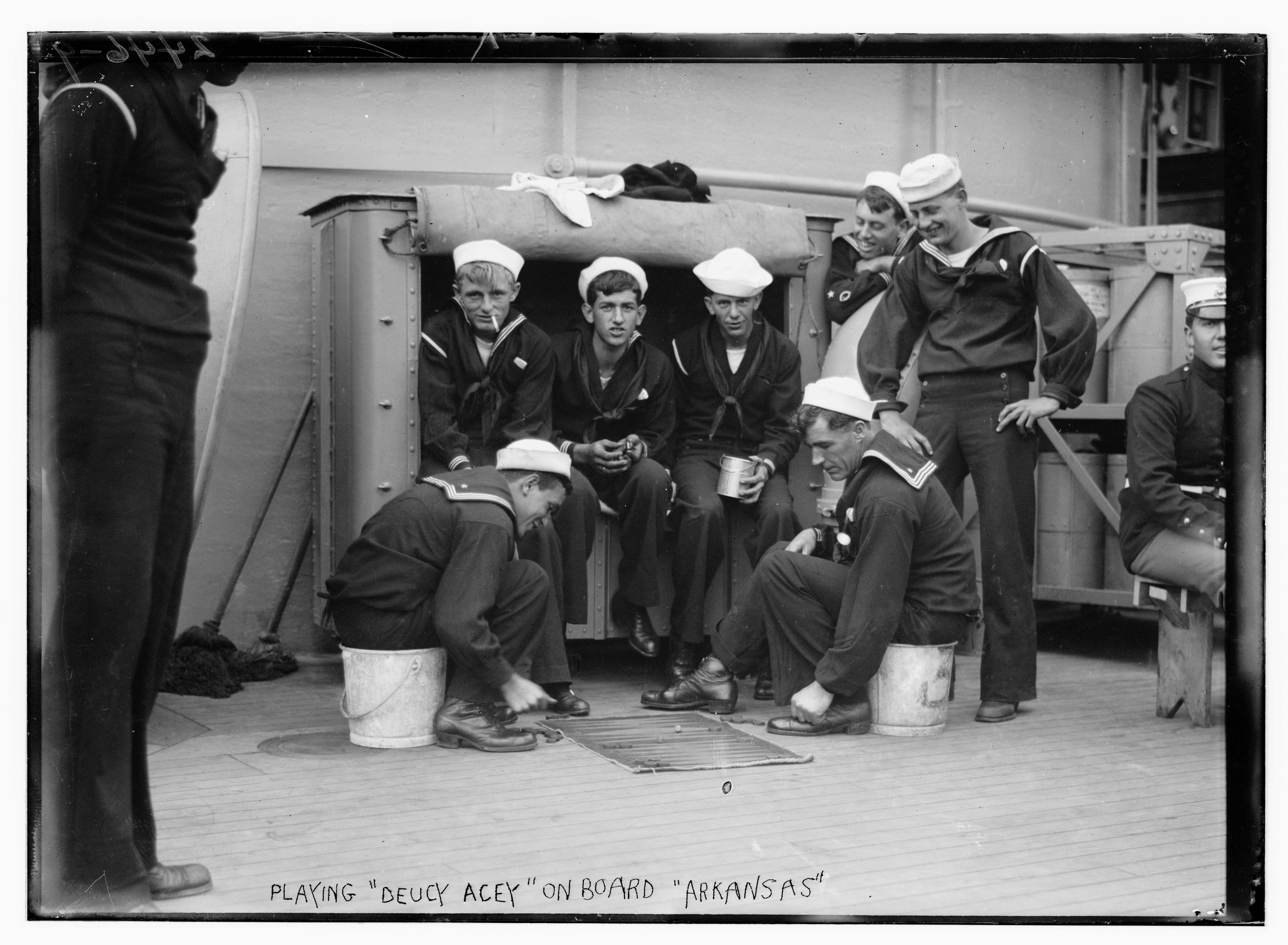 Title: Playing "Acey Deucy" on board ARKANSAS Abstract/medium: 1 negative : glass ; 5 x 7 in. or smaller.